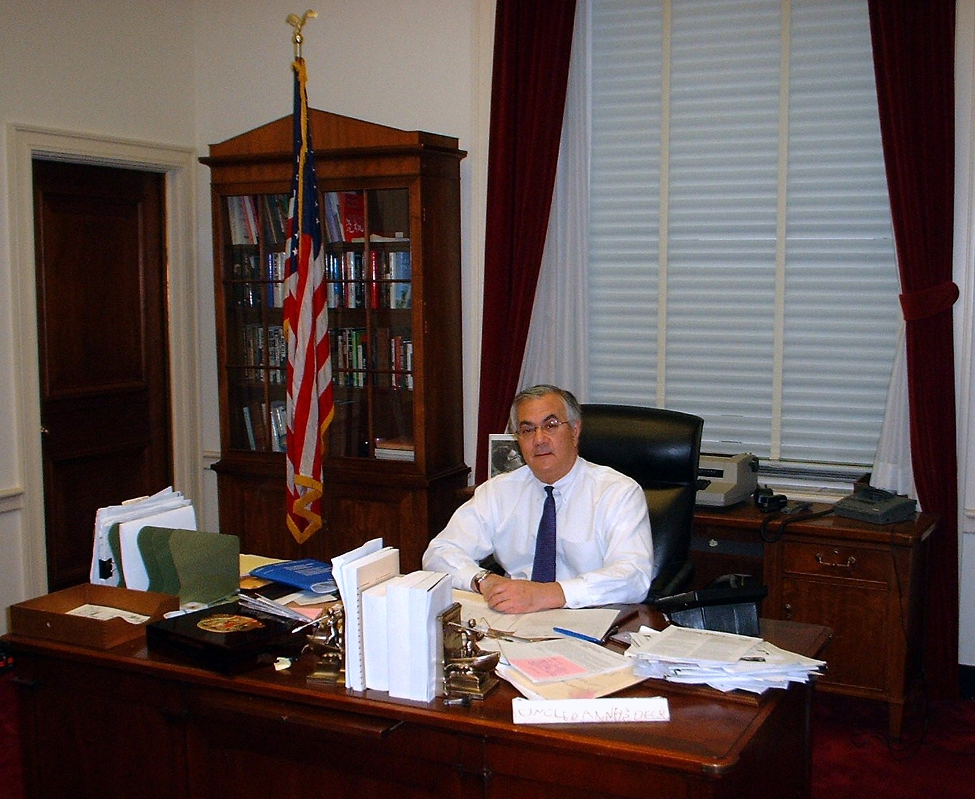 Congressman Barney Frank (D-MA) sitting in his office.